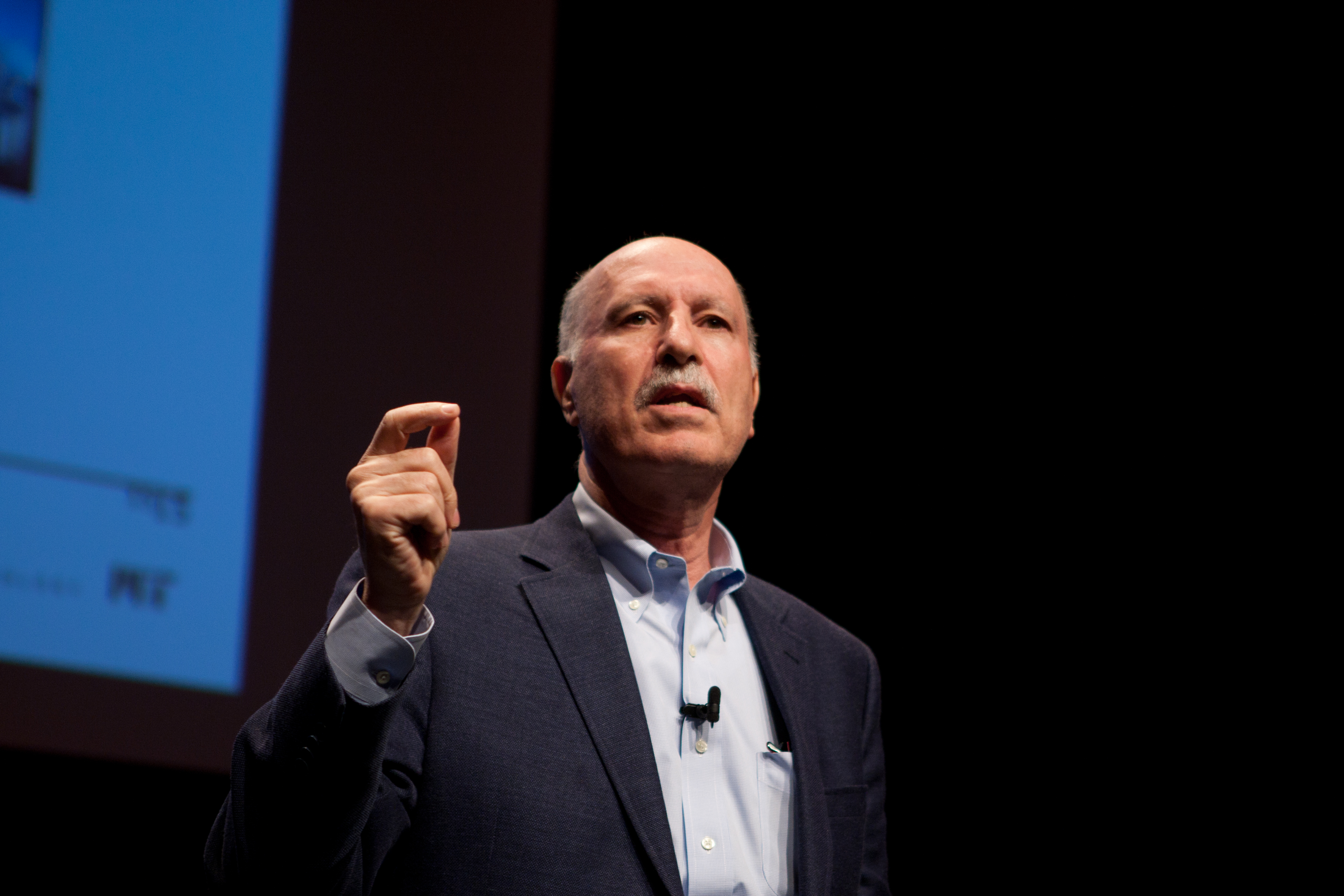 Photo by Árni Torfason for PopTech